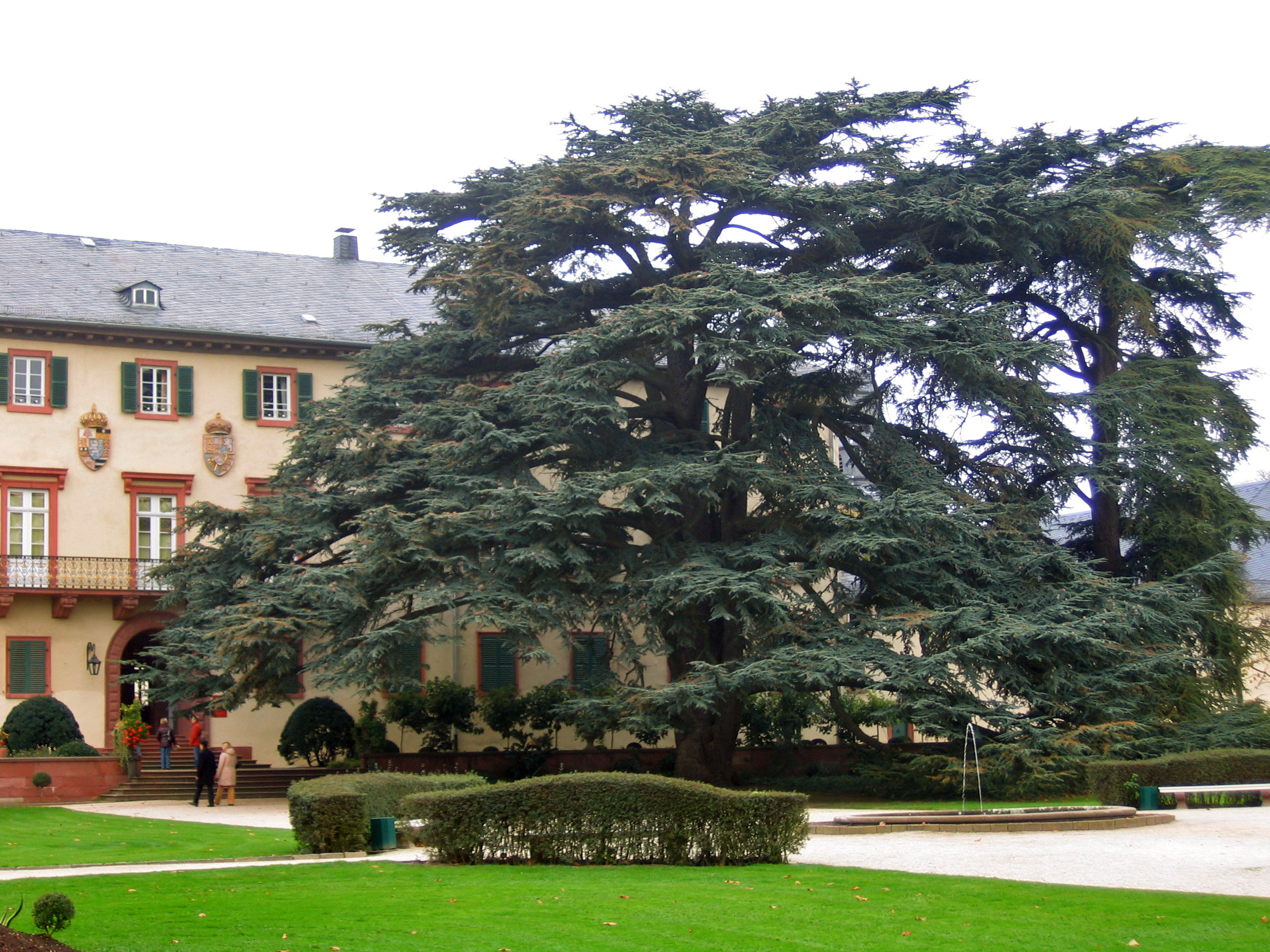 Lebanese Cedar (Cedrus libani) in Bad Homburg, Germany